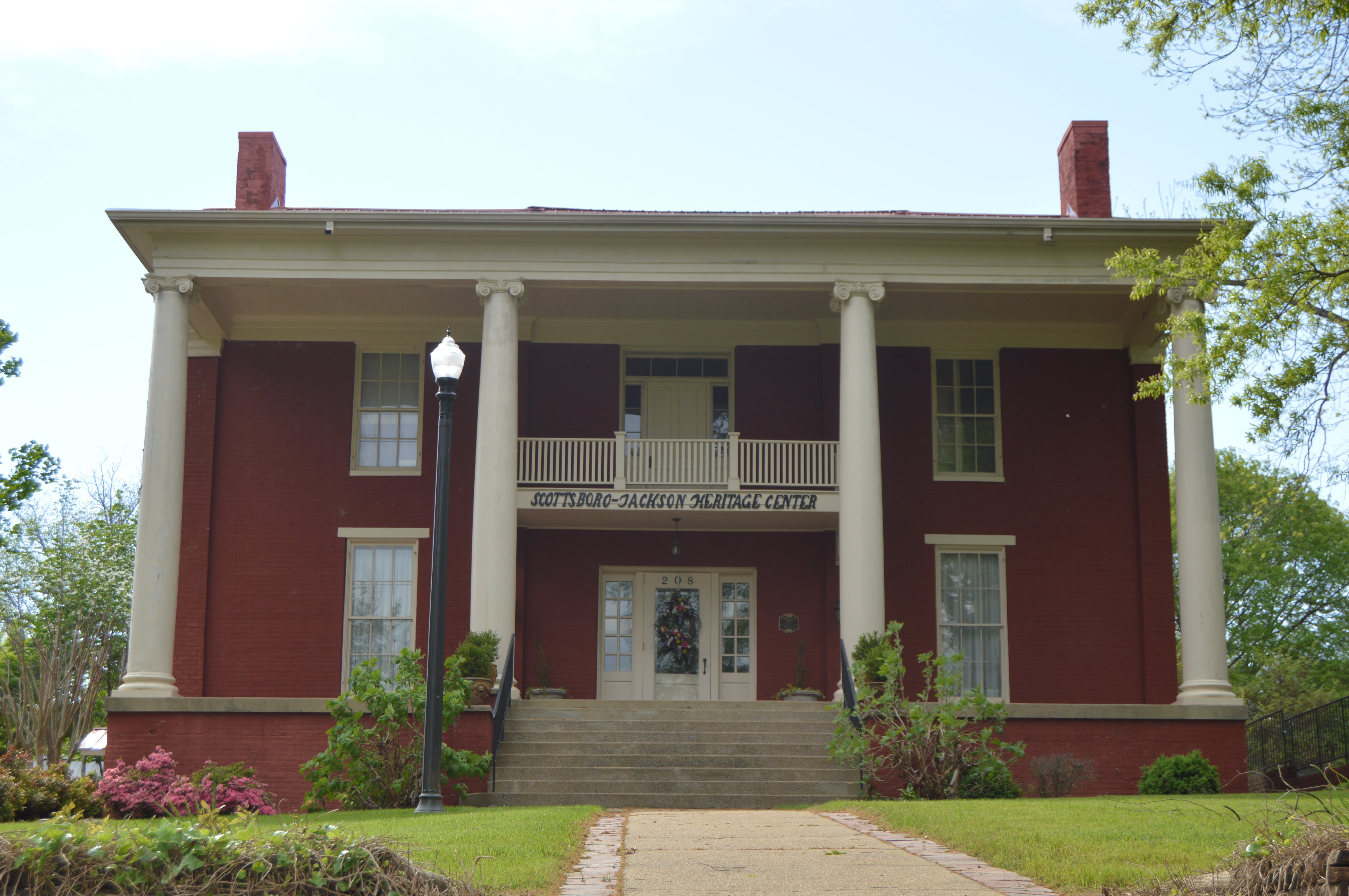 Front of the Brown-Proctor House, located at 208 S. Houston Street in Scottsboro, Alabama, United States. Built in 1881, it is listed on the National Register of Historic Places.